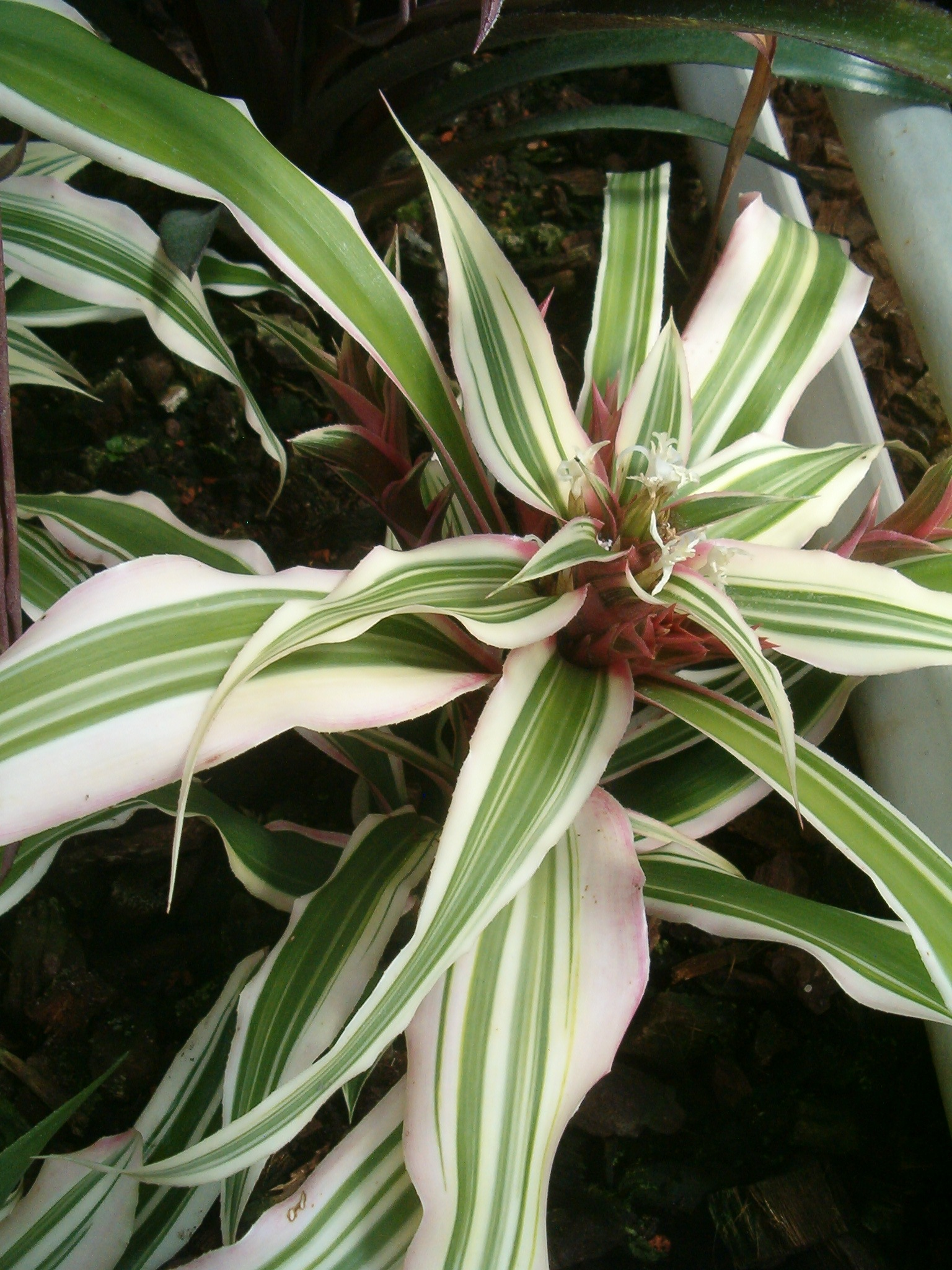 At Botanical Gardens Berlin-Dahlem Species Cryptanthus bromelioides cv. 'Tricolor'